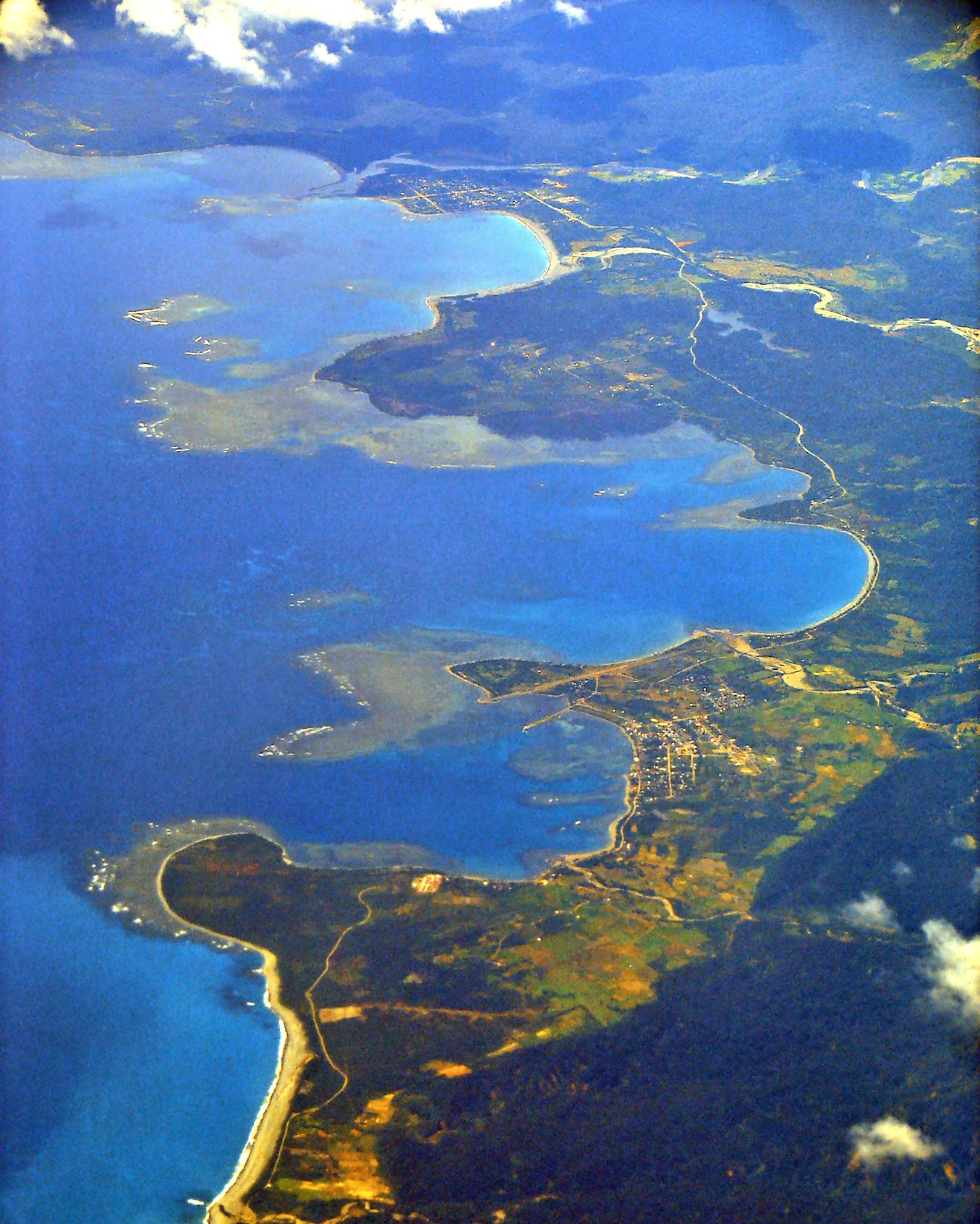 Aerial view of Divilacan Bay, Isabela, Philippines